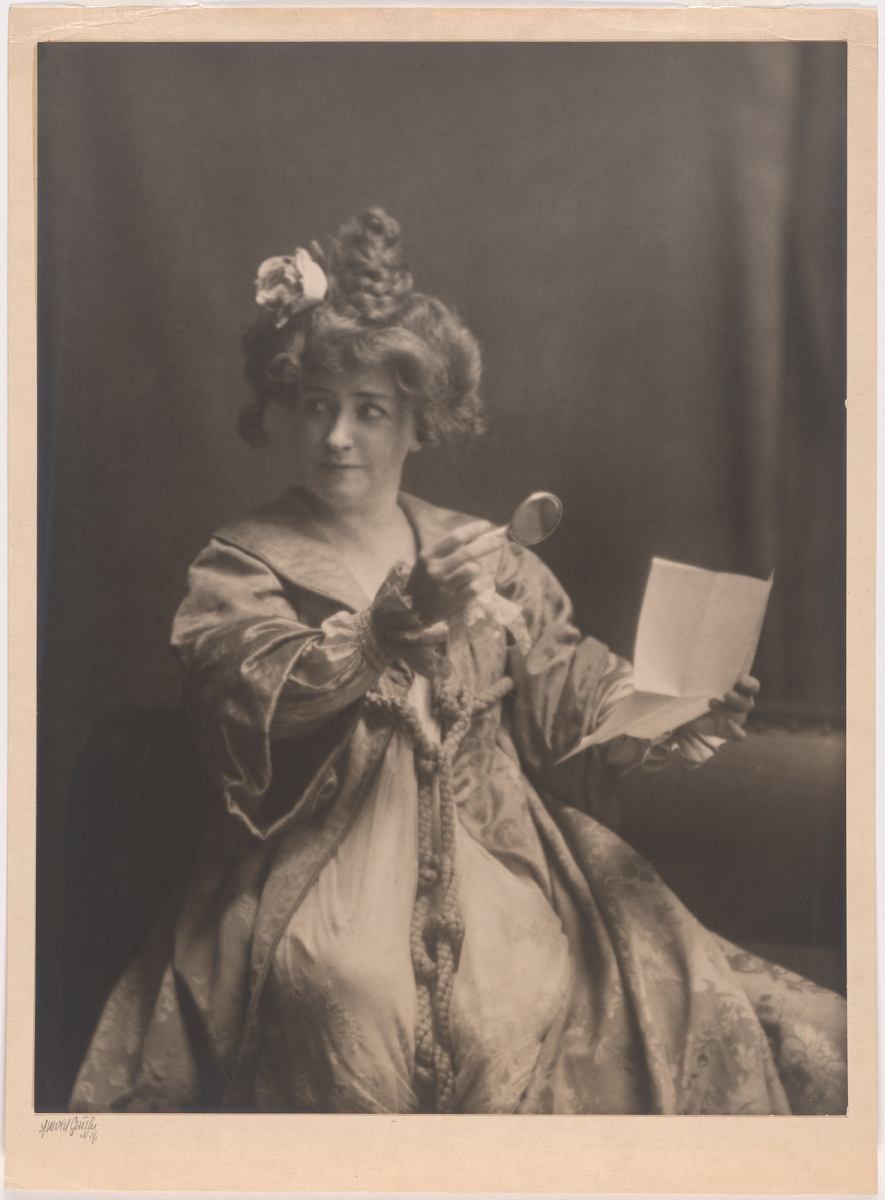 Minnie Maddern Fiske, 19 Dec 1865 - 15 Feb 1932